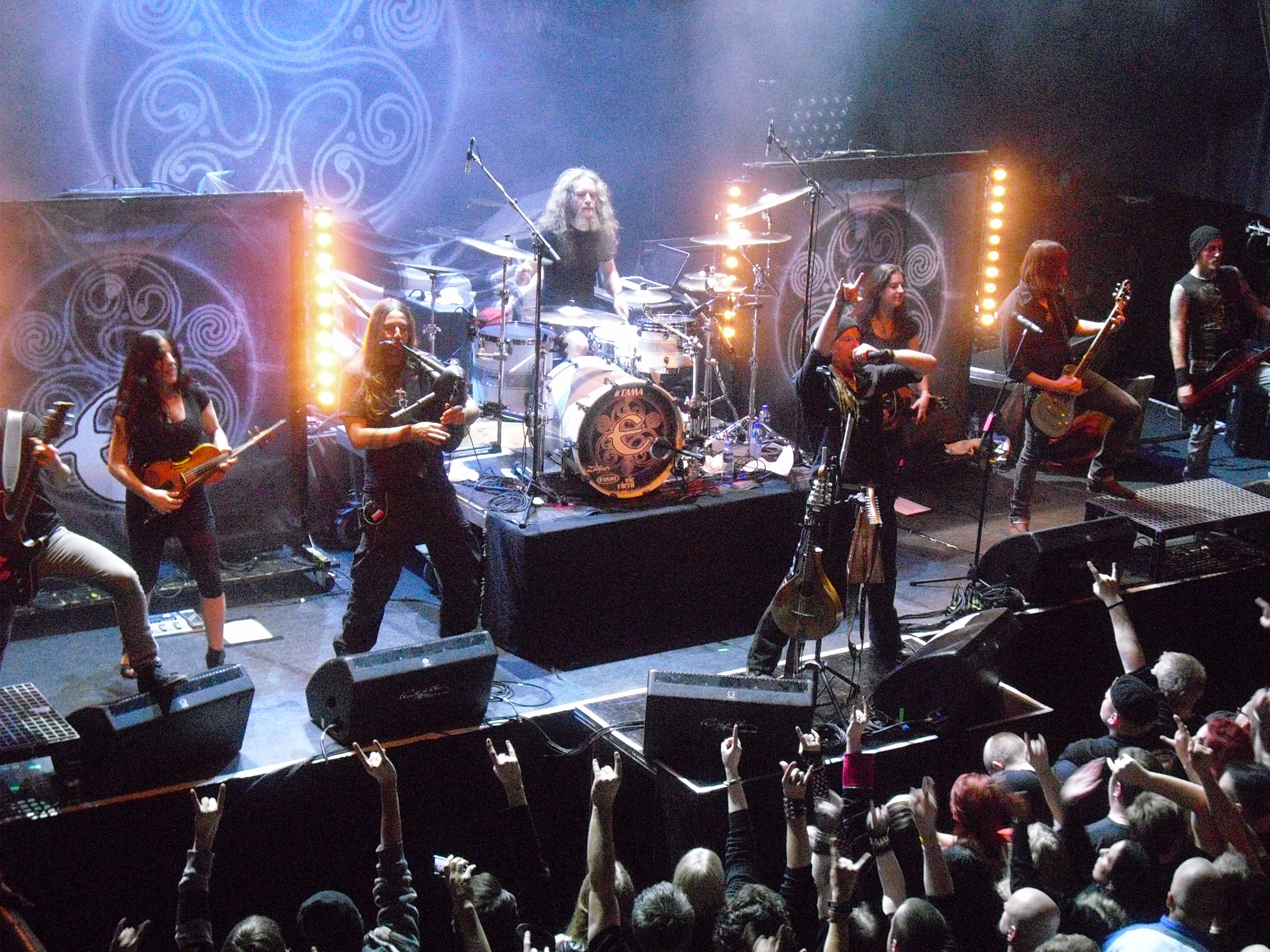 Eluveitie performing live in Oslo in October 2012